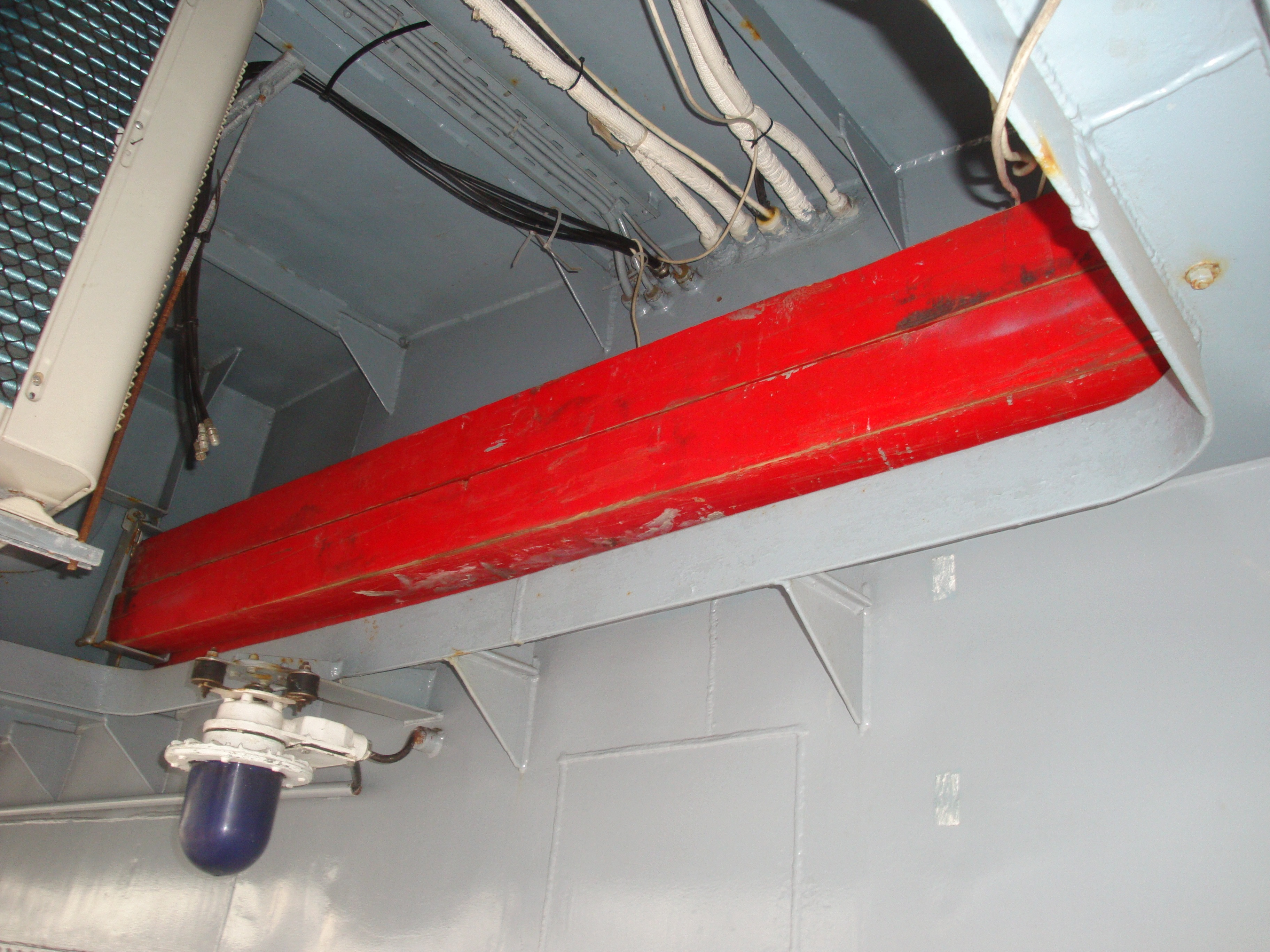 ORP Mewa - minesweeper of Polish Navy, Project 206F (Krogulec). Wood for damage control.